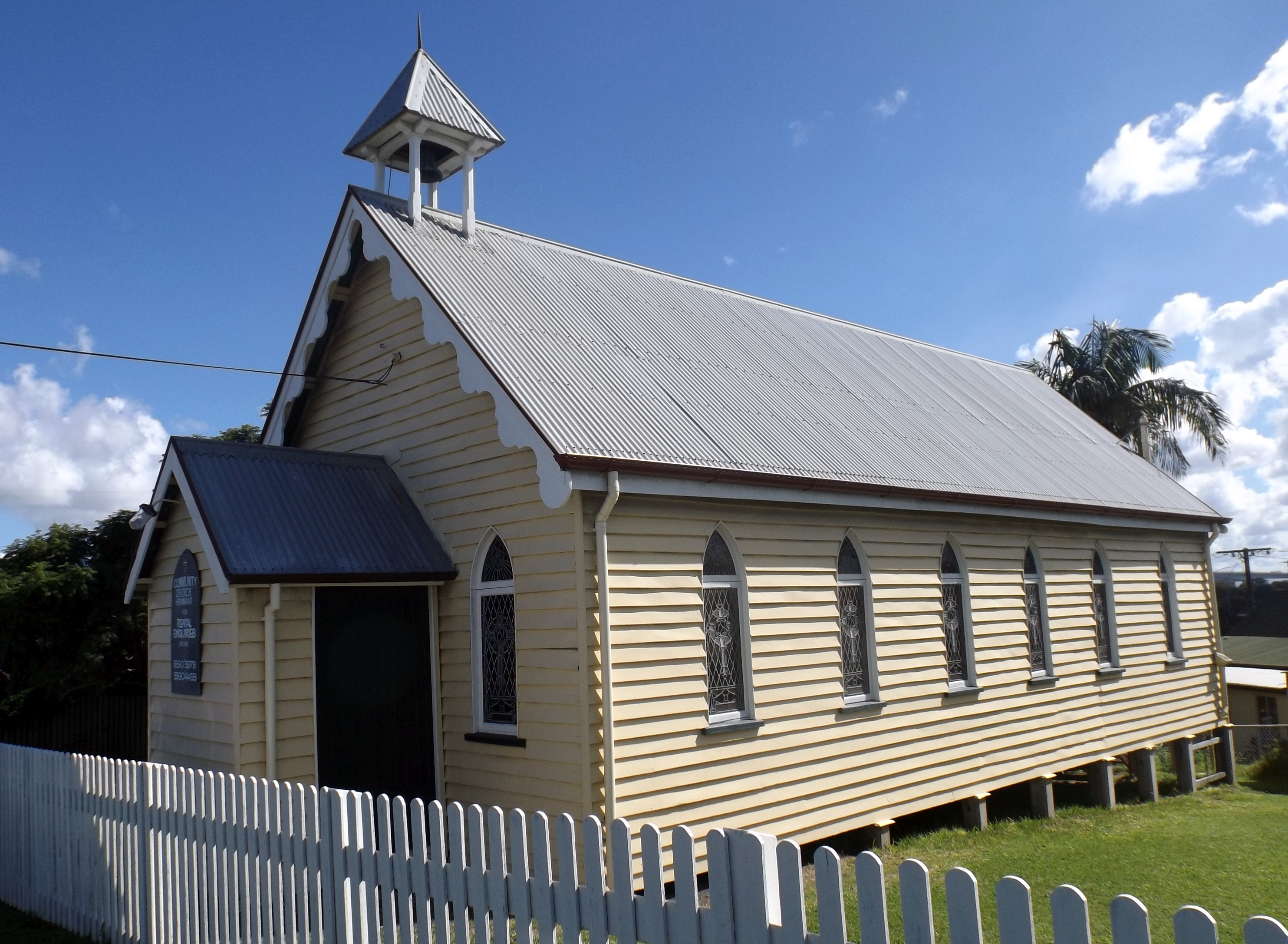 Photo of Hemmant Christian Community Church at Hemmant, Brisbane, Queensland, Australia.